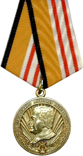 Russian Federation, Ministry of Defence. Medal Of Major-General Alexander Alexandrov. Instituted on 2 August 2005. Awarded to members of the armed forces, civilian personnel of the Armed Forces, veterans of the Armed Forces who are in reserve or retired, as well as other citizens of the Russian Federation for great personal contribution to the creation and promotion of Russian patriotic military music and the development of military music culture.